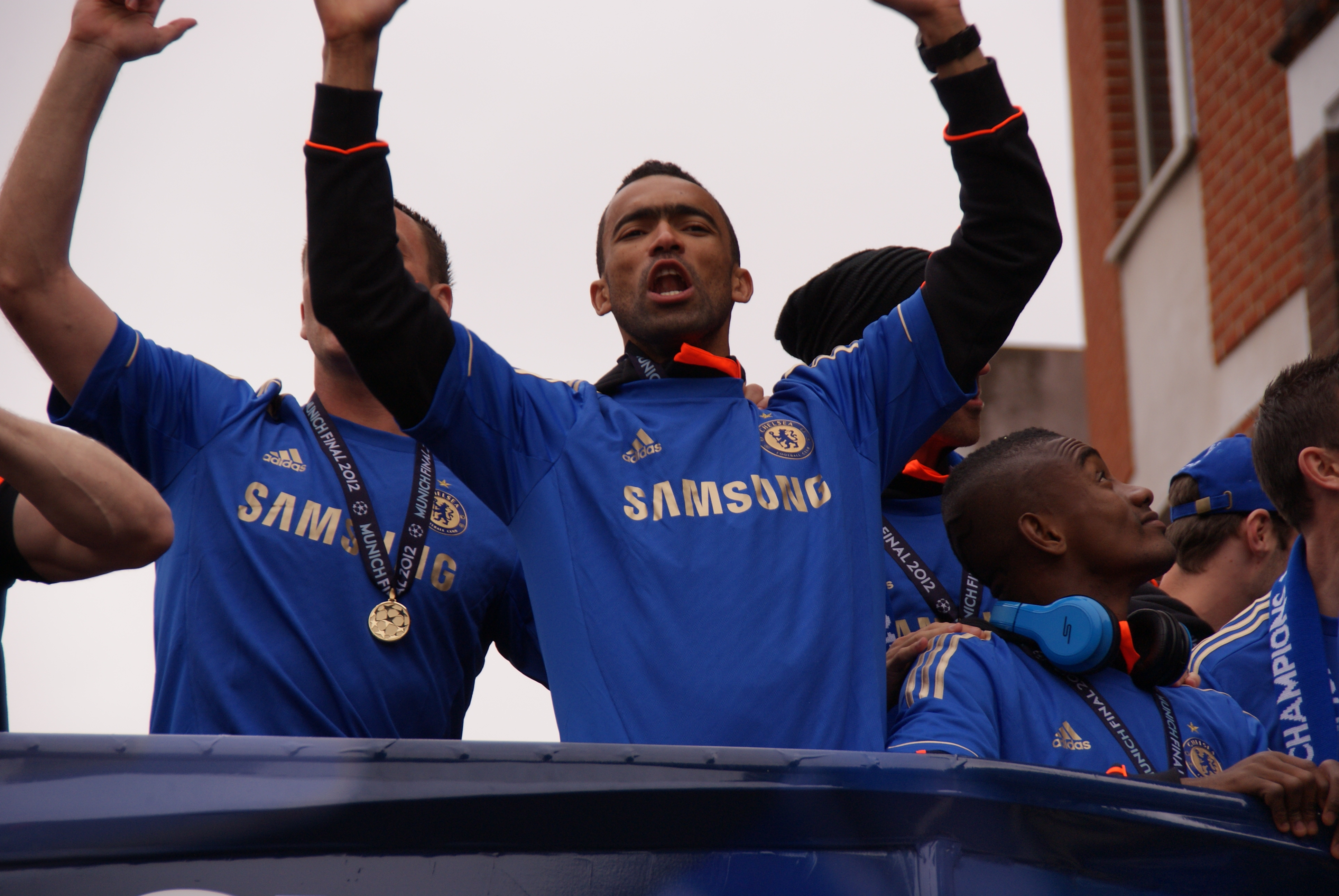 This photo was taken on Sunday 20th May 2012 during the Chelsea Football Club Parade following Chelsea's victory in the European Champions League Final.